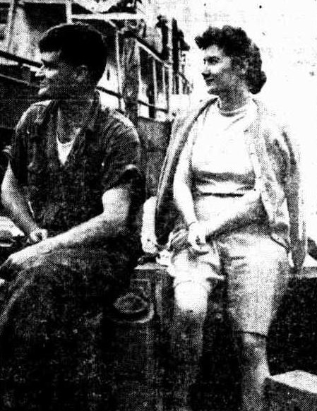 A photograph of Australian adventurer Ben Carlin and his American wife Elinor.